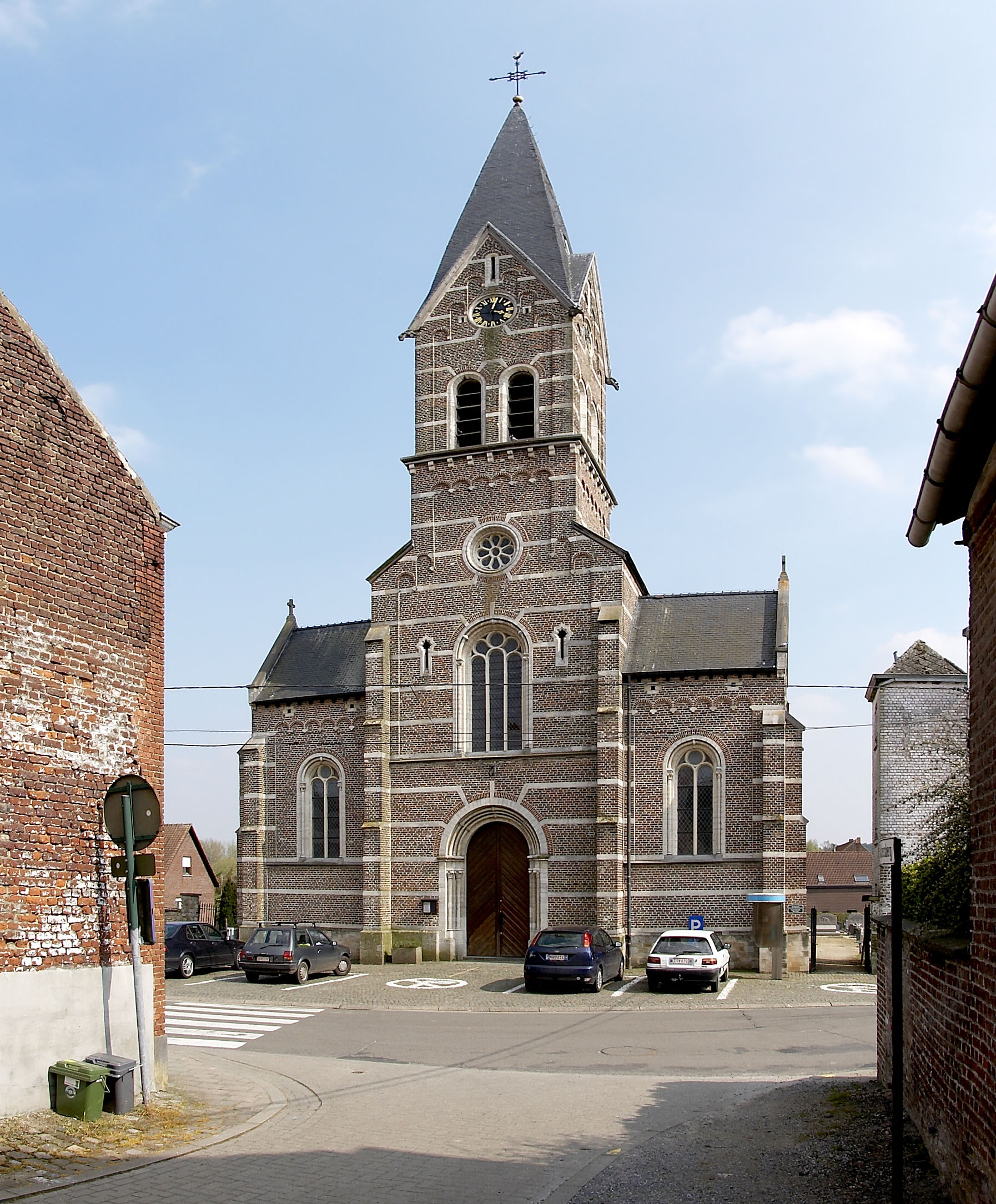 Sint-Bartholomeus church in Korbeek-Dijle. Other photo